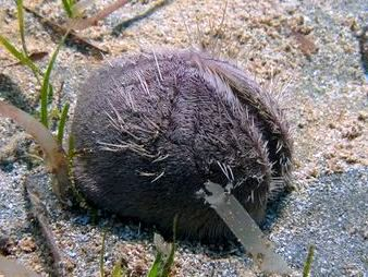 Spatangus purpureus (Antiparos - Greece)